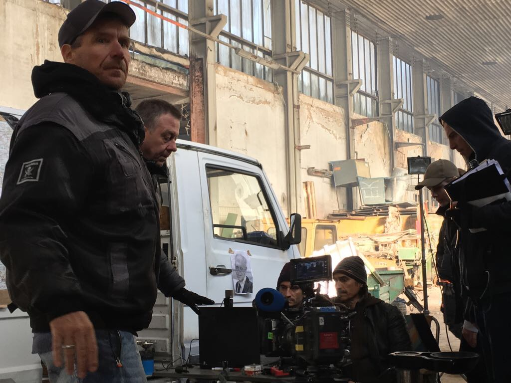 Director Thomas "Tom" Bohn and DOP Jürgen Carle (from left), Diego Wallraff and Cuco Wallraff on a TATORT film set 2018